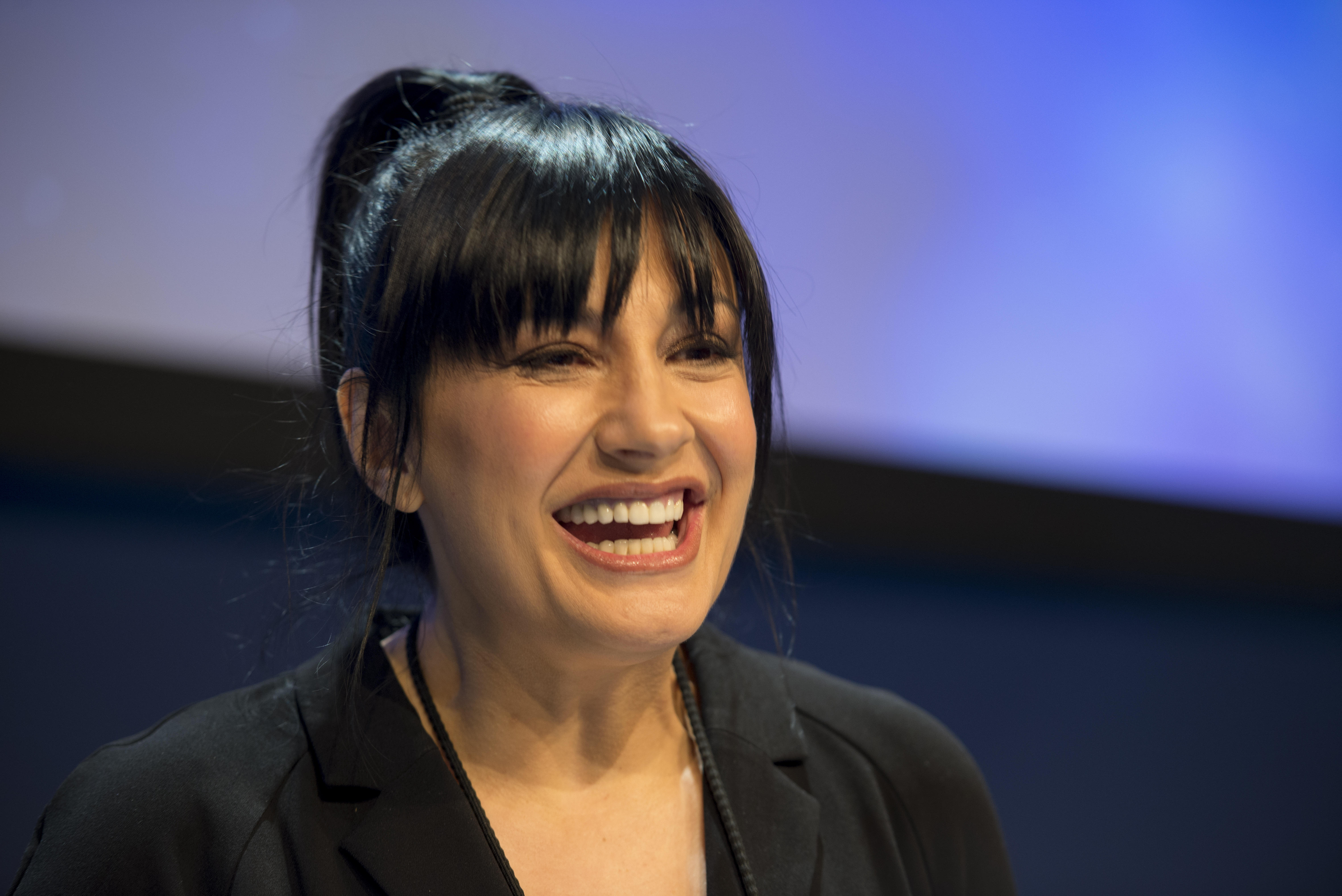 Kaliopi at a Meet & Greet during the Eurovision Song Contest 2016 in Stockholm. (Help translate this text)